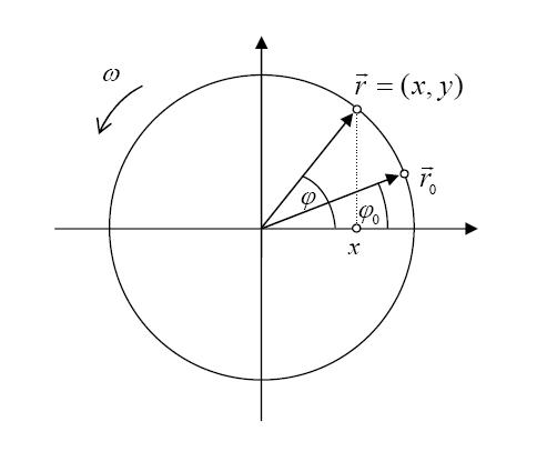 Uniform circular motion in xy plane - link to harmonic oscilation